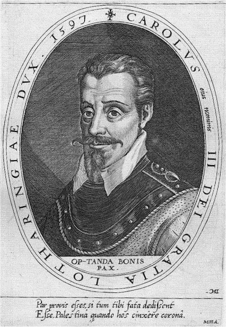 Charles III, Duke of Lorraine, copper engraving